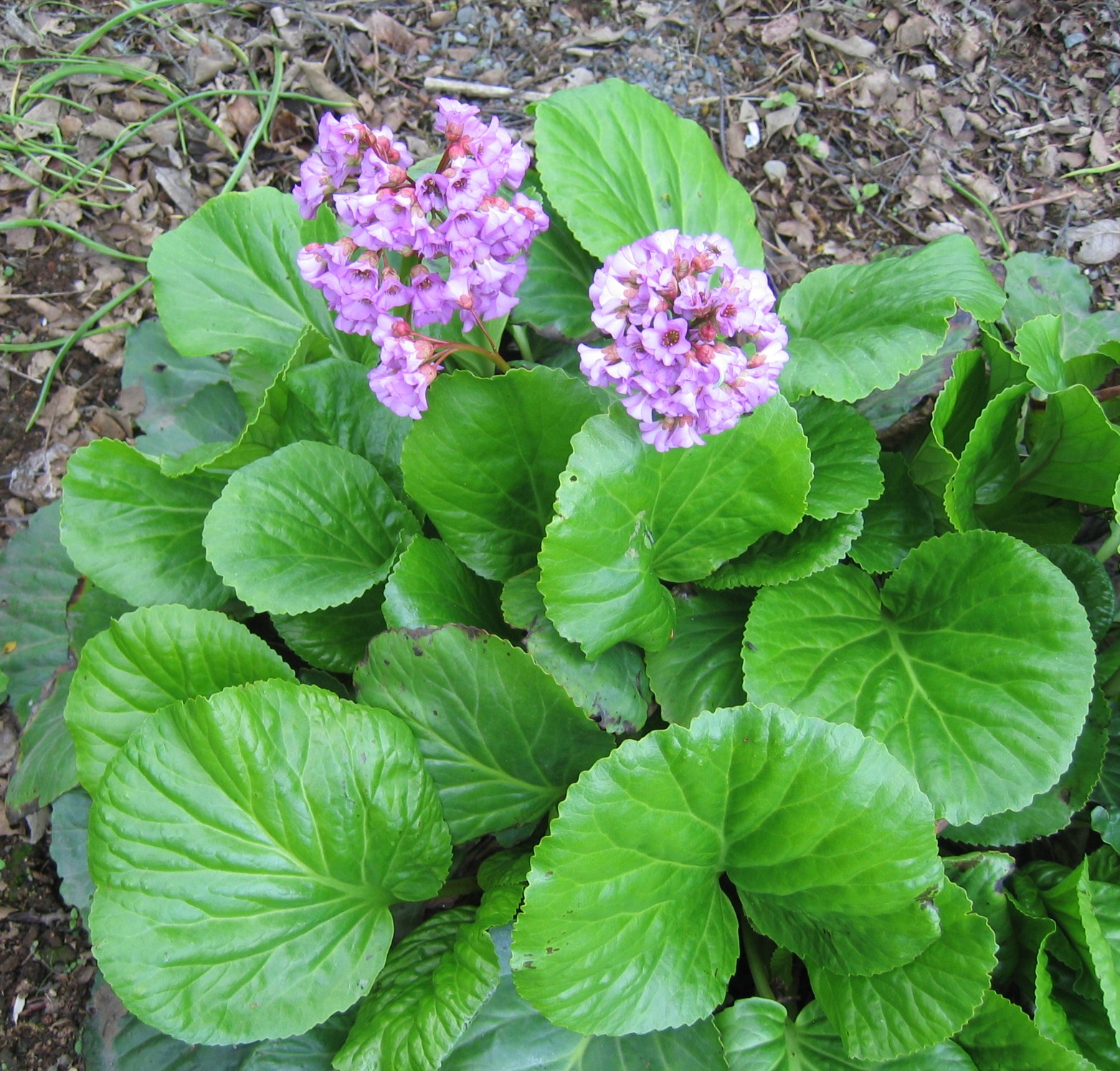 Bergenia crassifolia Photo by Salvor taken in the botanical garden in Reykjavik.